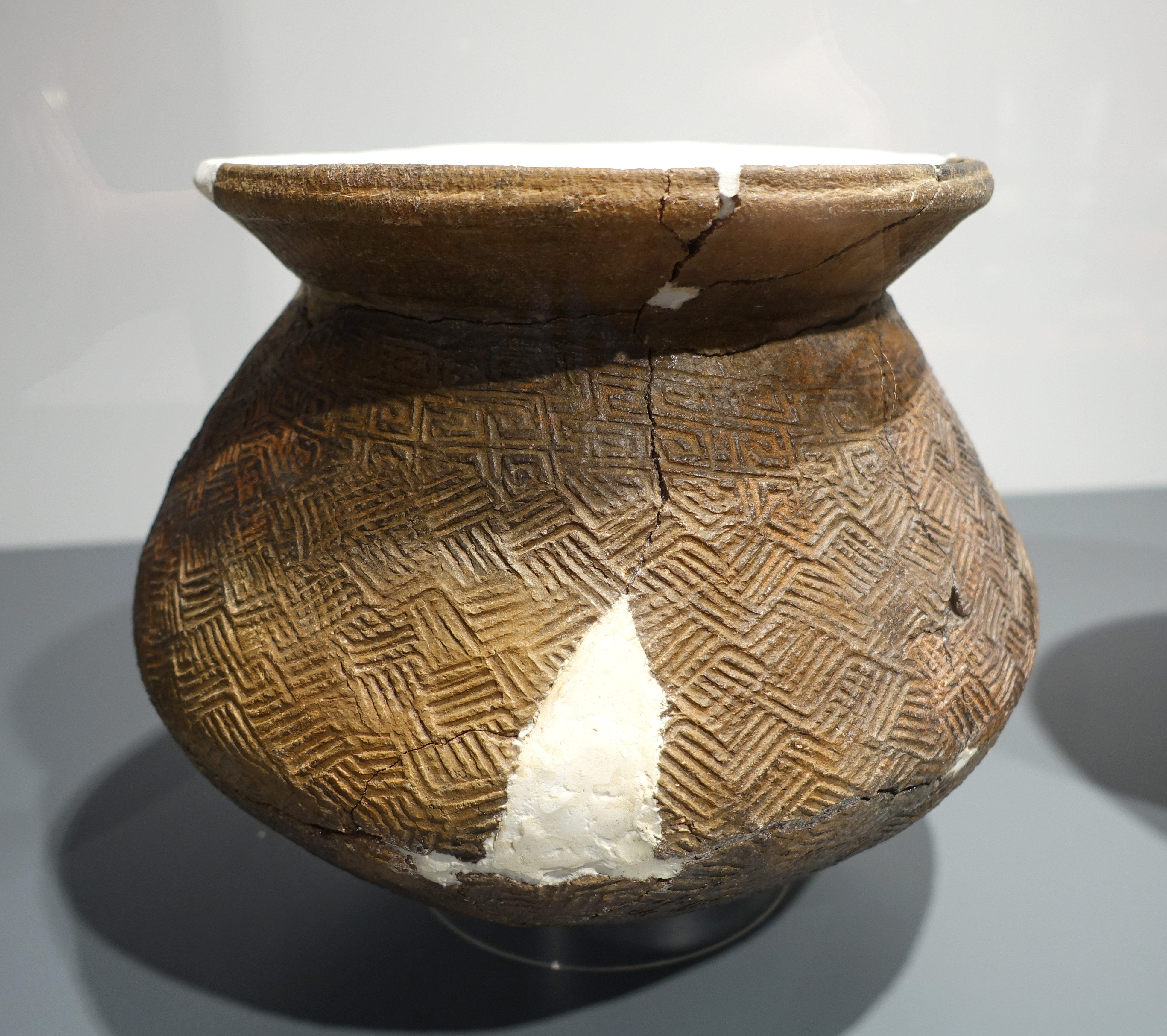 Exhibit in the Hong Kong Museum of History, Hong Kong. This artwork is old enough so that it is in the public domain.